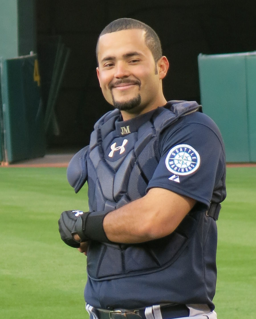 Seattle Mariners catcher Jesús Montero